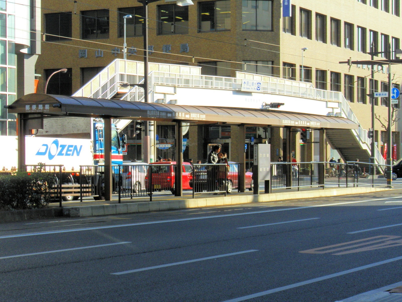 Okayama Electric Tramway Yūbinkyokumae Station.